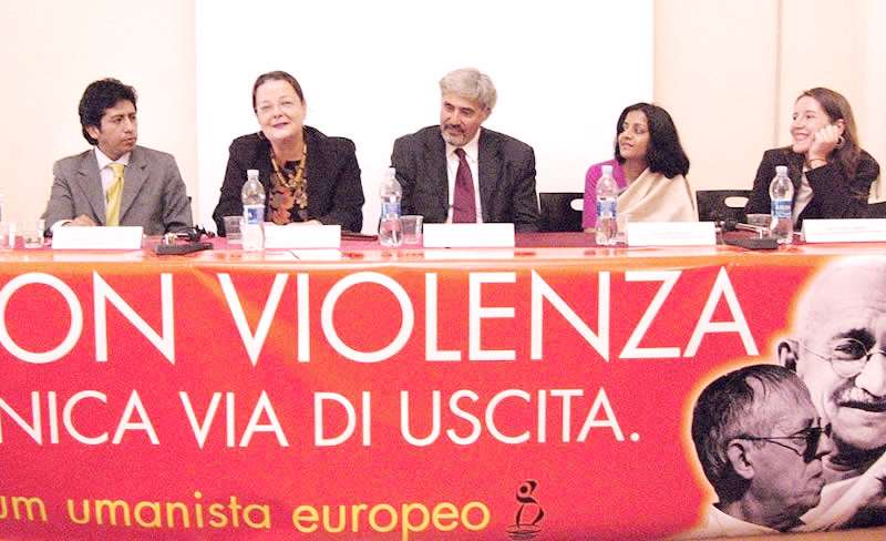 Ambassador Shamma Jain (second from right) with Giorgio Schultze, EU Spokesperson for New Humanism, and the ambassadors of Brazil, Bolivia, & South Africa on the occasion of the International Day of Non-Violence in Rome, Italy.